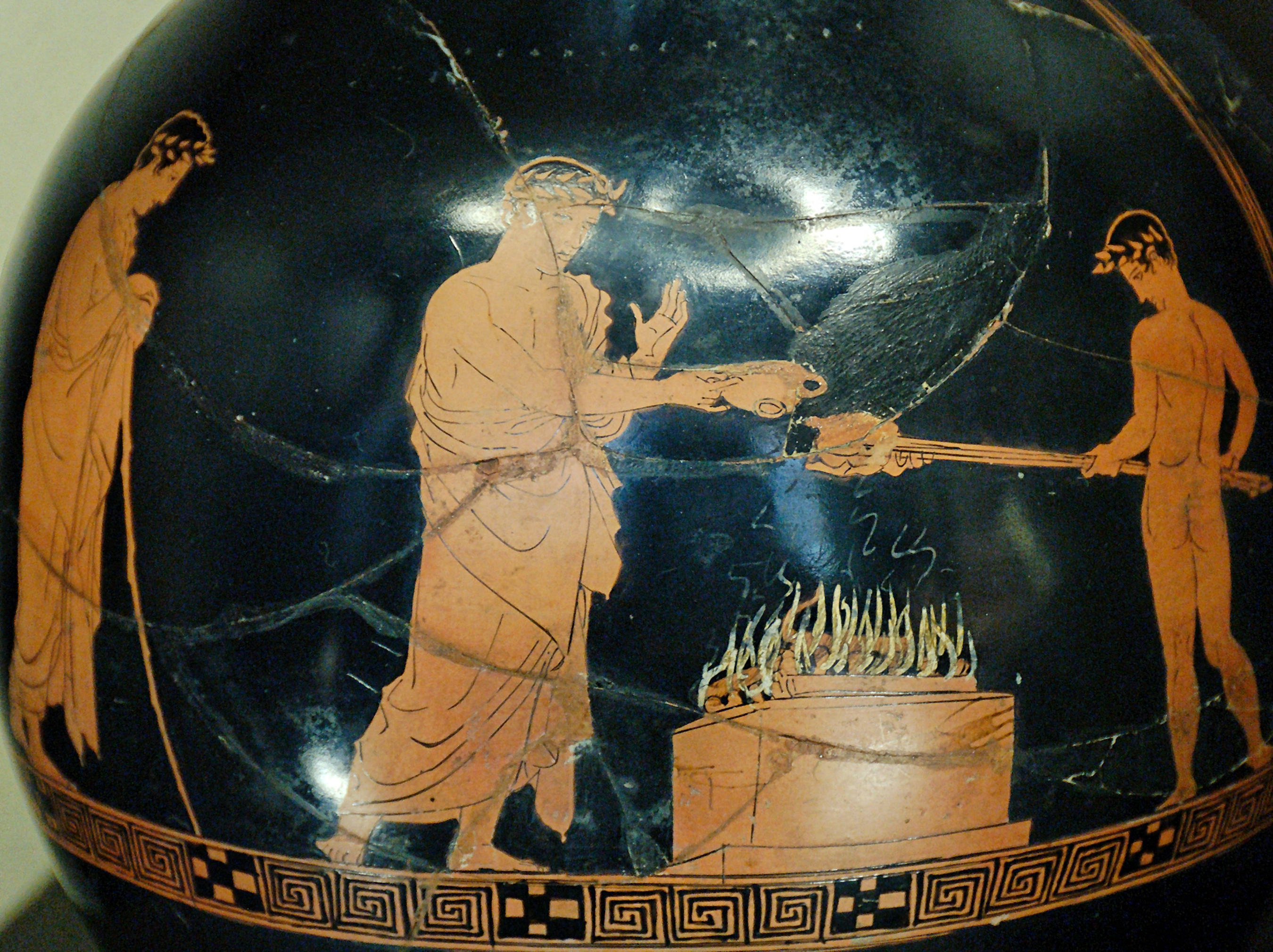 Sacrifice scene, with kalos inscription. Detail from an Attic red-figure oinochoe, ca. 430-425 BC.